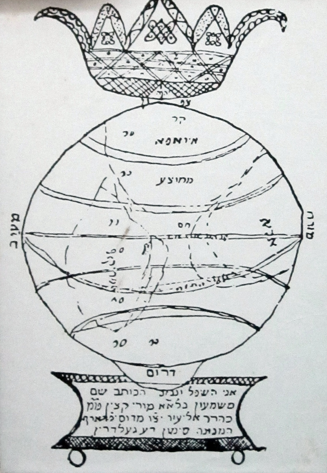 Drawing of the globe from the travel diary of Simon Von Geldern (1720-1728)